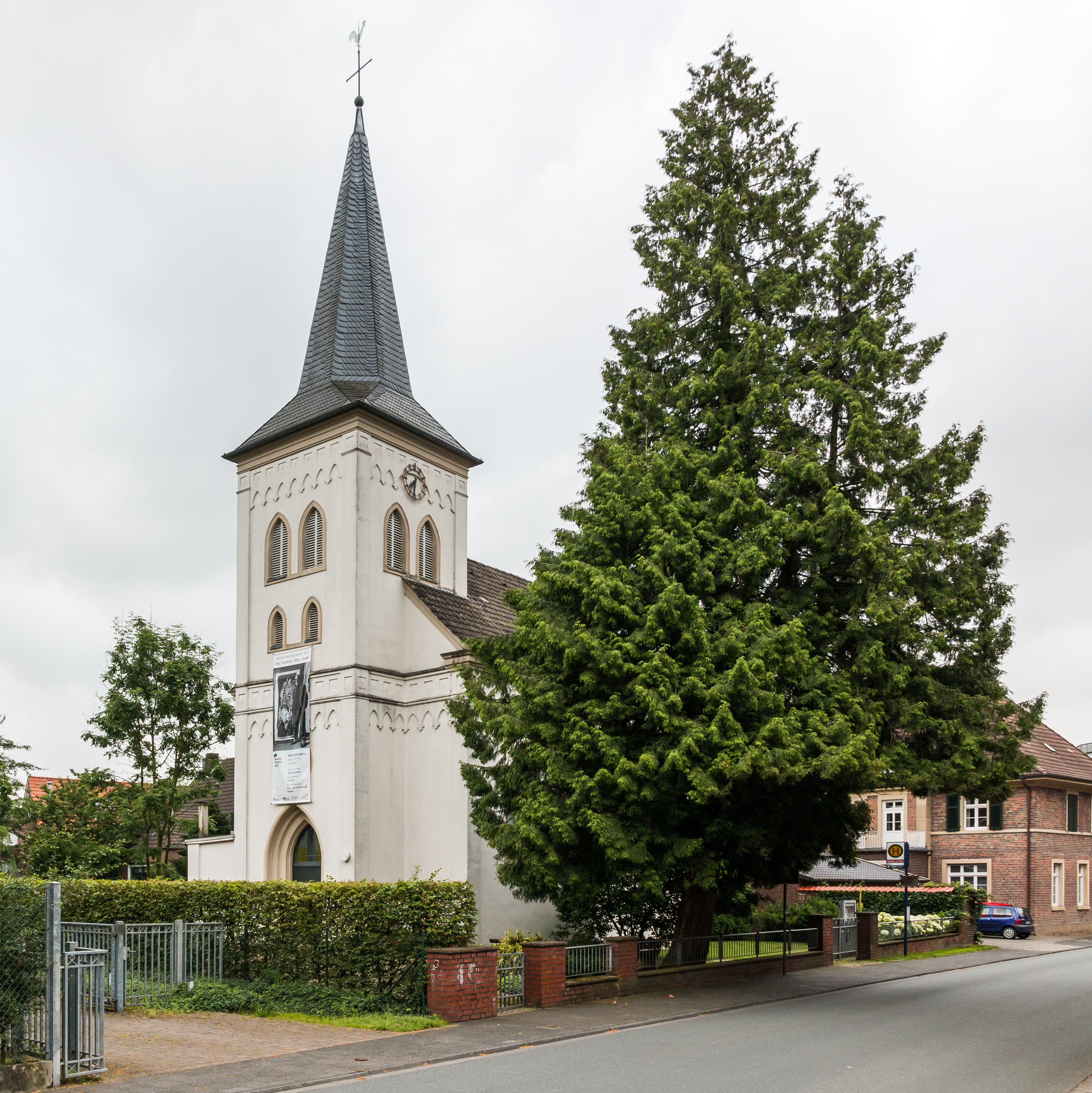 Protestant church in Lüdinghausen, North Rhine-Westphalia, Germany This image shows a heritage building in Germany, located in the North Rhine-Westphalian city Lüdinghausen (no. A/019).